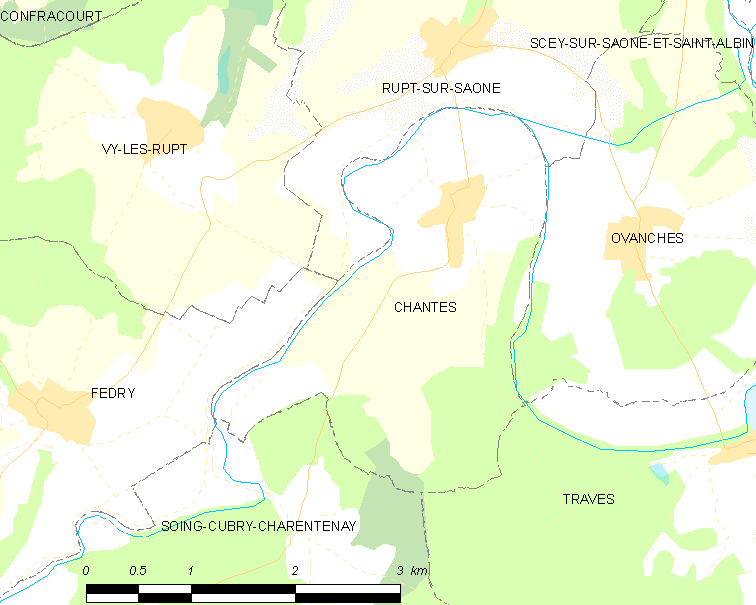 Map of French municipality